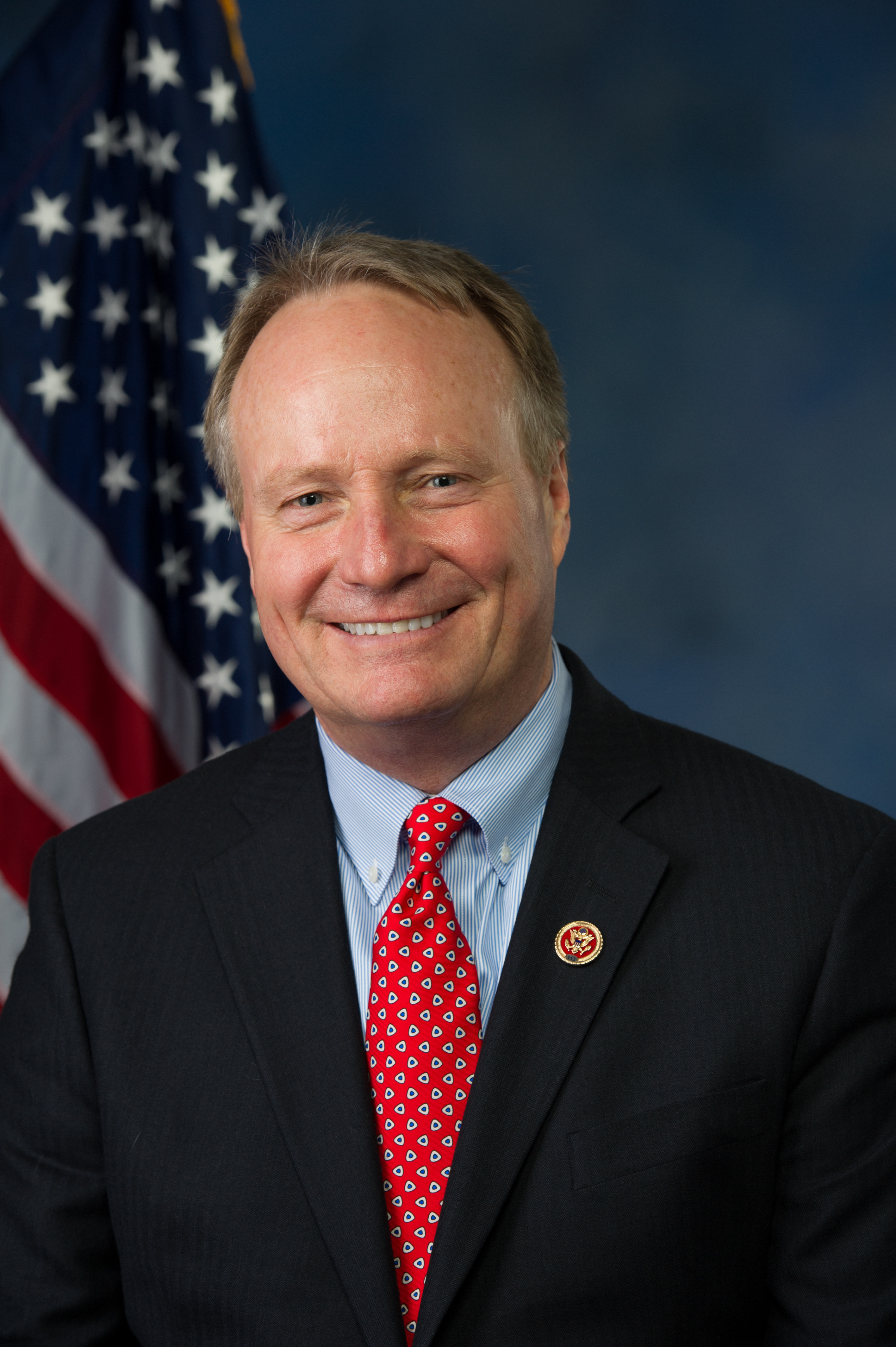 U.S. congressman David Joyce